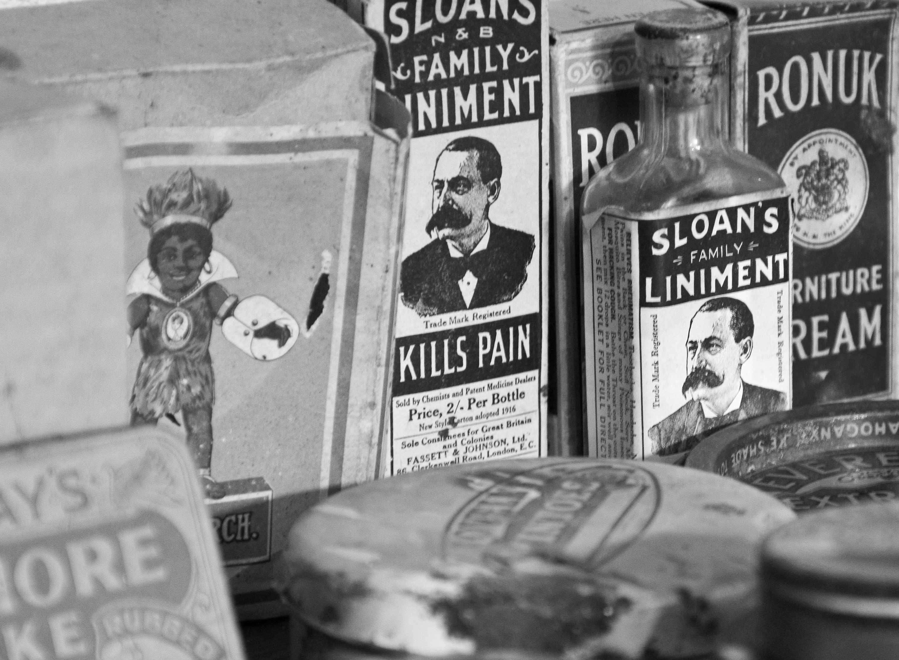 Sloan's Liniment and more